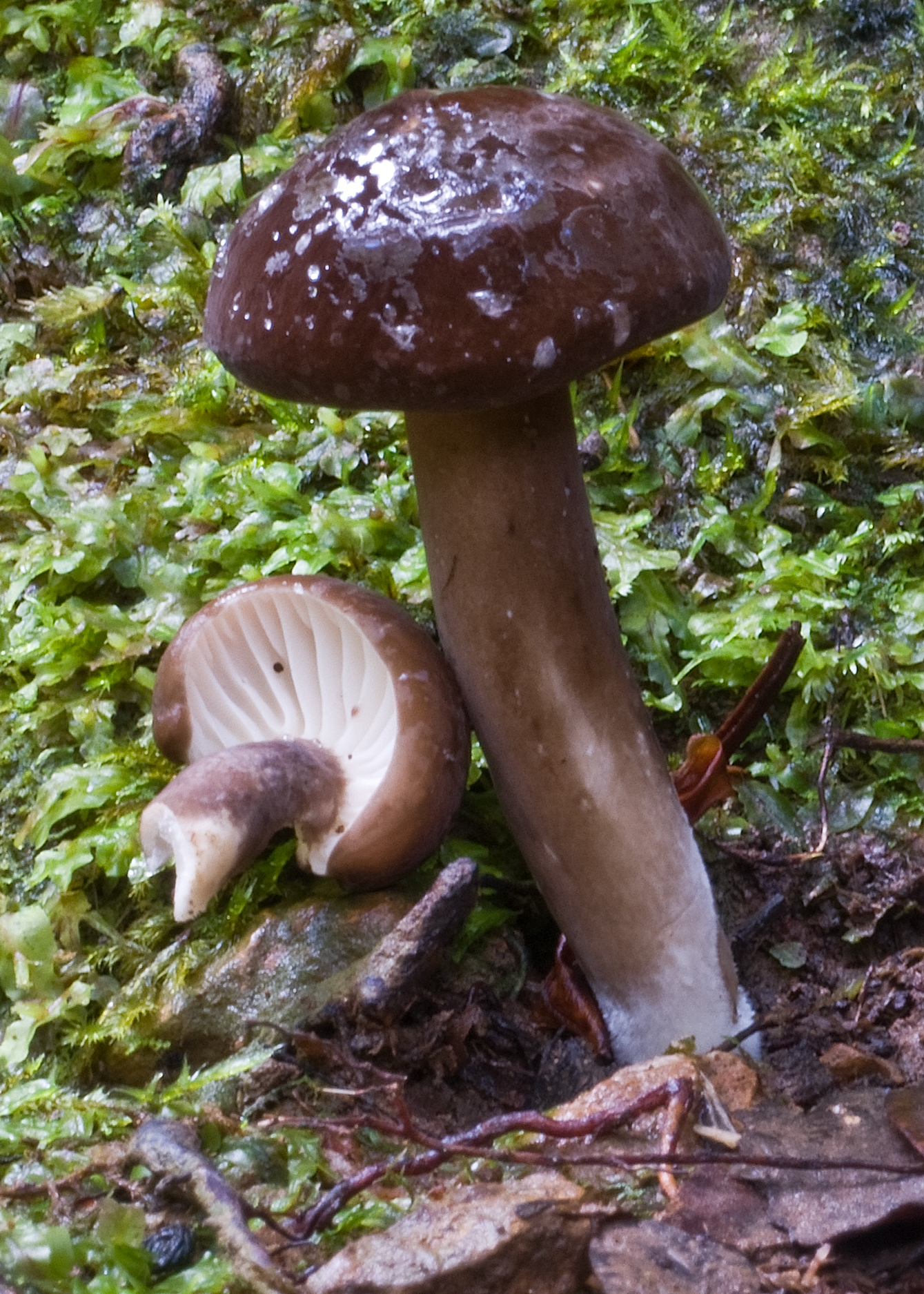 Fruit bodies of the fungus Lactifluus wirrabara (Grgur.) Stubbe (formerly known as Lactarius wirrabara Grgur.). Photographed in Wilson River Primitive Reserve, New South Wales, Australia.